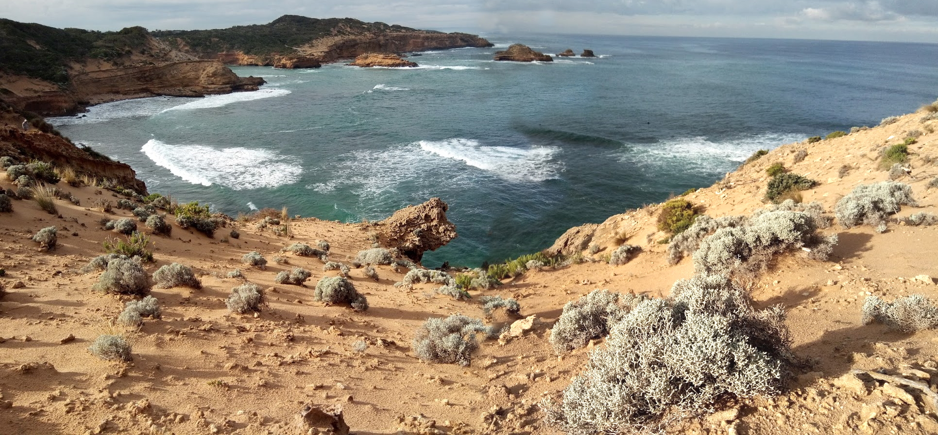 An example of the habitat where Leucophyta brownii is found. Here on an exposed cliff face at Jubilee Point, Sorrento, Victoria.